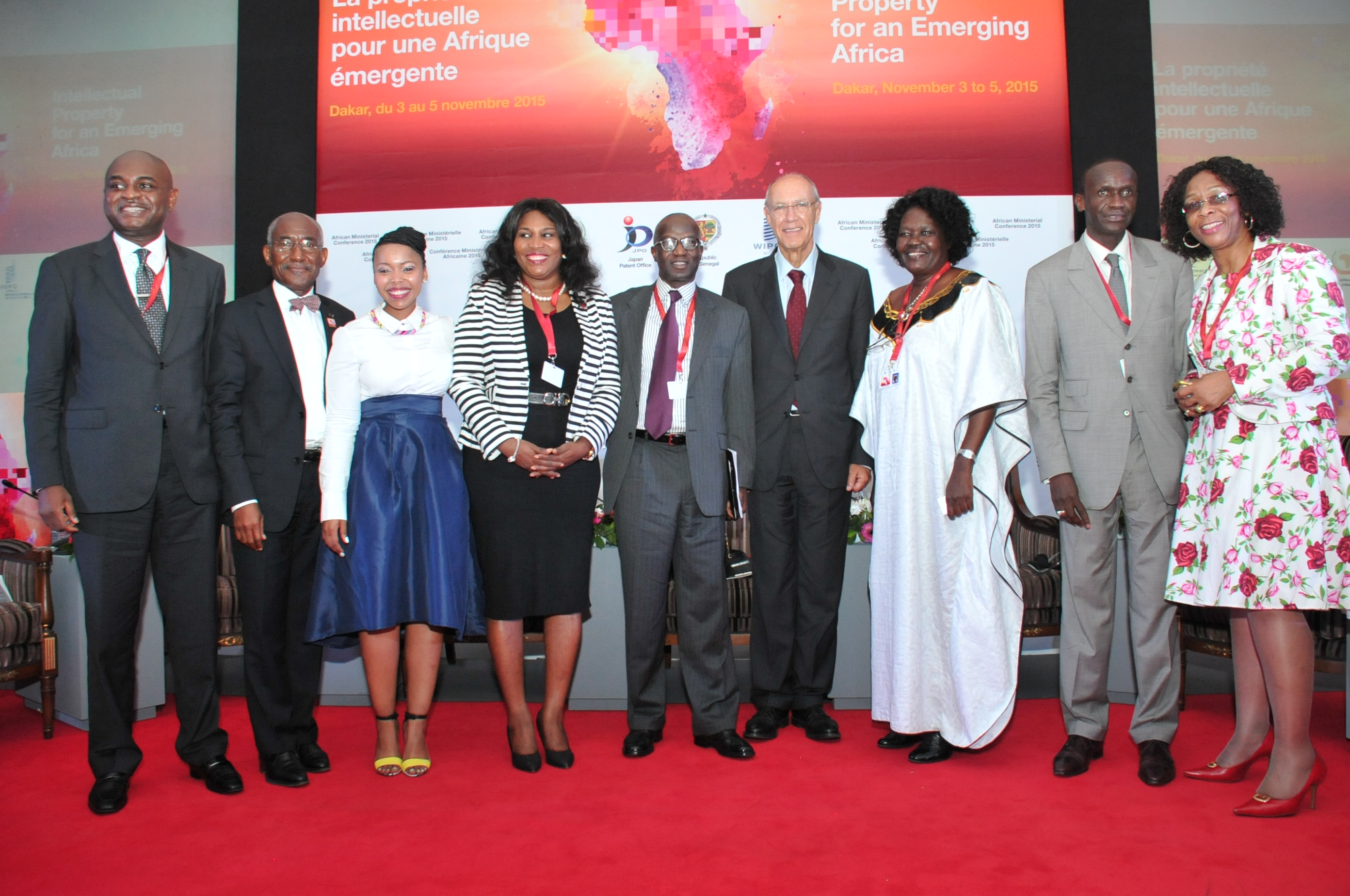 Participants in a high level segment on "Africa in a Knowledge-Based Economy-Challenges and Opportunities" organized in the context of the African Ministerial Conference 2015: Intellectual Property for an Emerging Africa, which met from November 3 – 5, 2015 in Dakar, Senegal. From left to right: Mr. Kingsley Chiedu Moghalu, Professor of Practice in International Business and Public Policy, the Fletcher School of Law and Diplomacy, Tufts University, Mr. Martial De-Paul Ikounga, Commissioner for Human Resources, Science and Technology, African Union CNBC Africa journalist Nozipho Mbanjwa, Ms. Oluwatoyin Sanni, Group Chief Executive Officer, United Capital, Nigeria Mr. Julius Akinyemi, Resident Entrepreneur, MIT Media Lab, Ms. Catherine Odora-Hoppers, Professor, University of South Africa (UNISA), Pretoria, Mr. Mactar Silla, Chief Executive Officer, MS Consulting Libreville and Dr. Snowy Khoza Chief Executive Officer, Bigen Africa, Pretoria. Copyright: WIPO. Photo: Cheikh Saya Diop. This work is licensed under a Creative Commons Attribution-ShareAlike 3.0 IGO License.